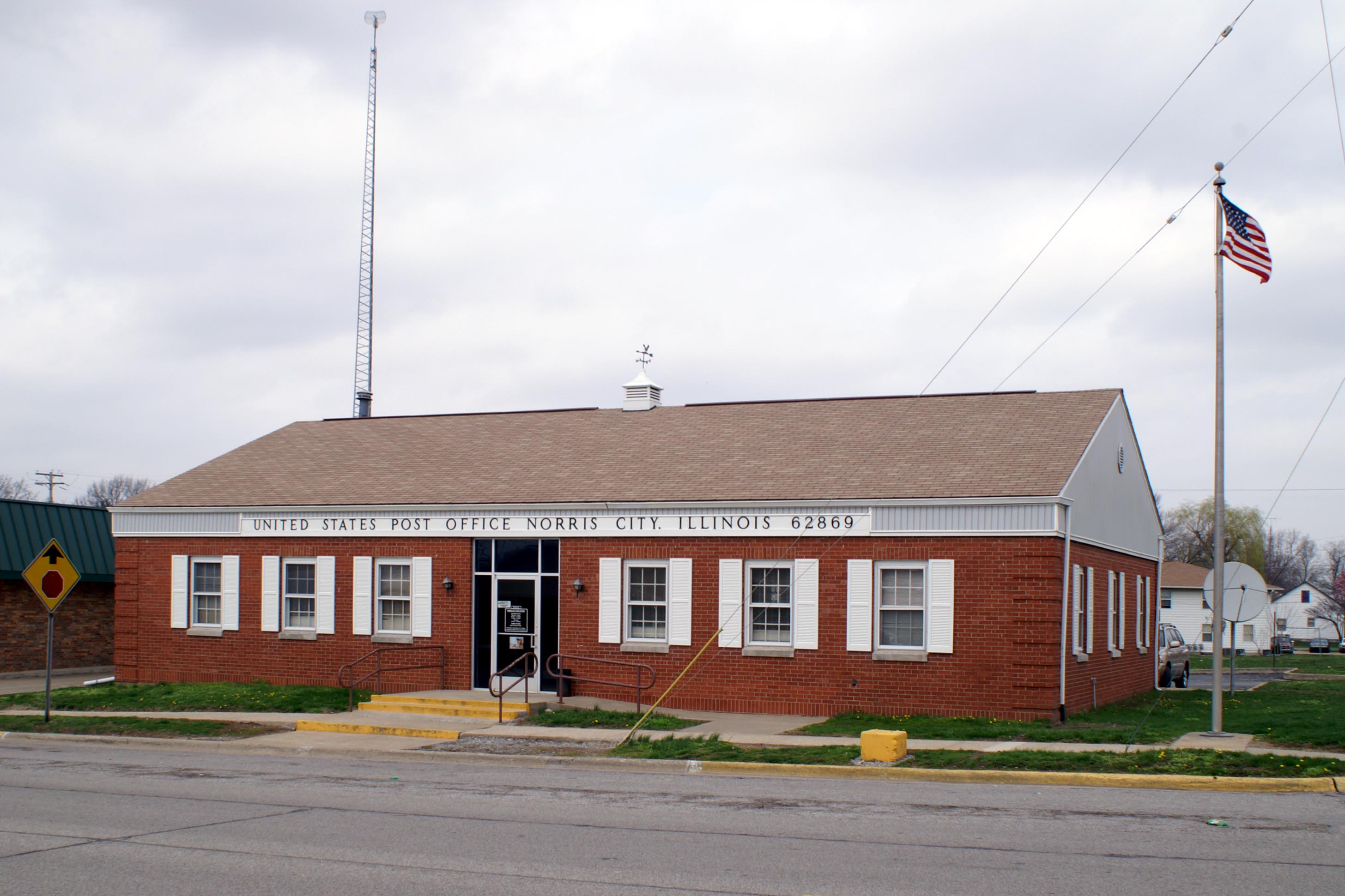 The Norris City Post Office building, in Norris City, Illinois.